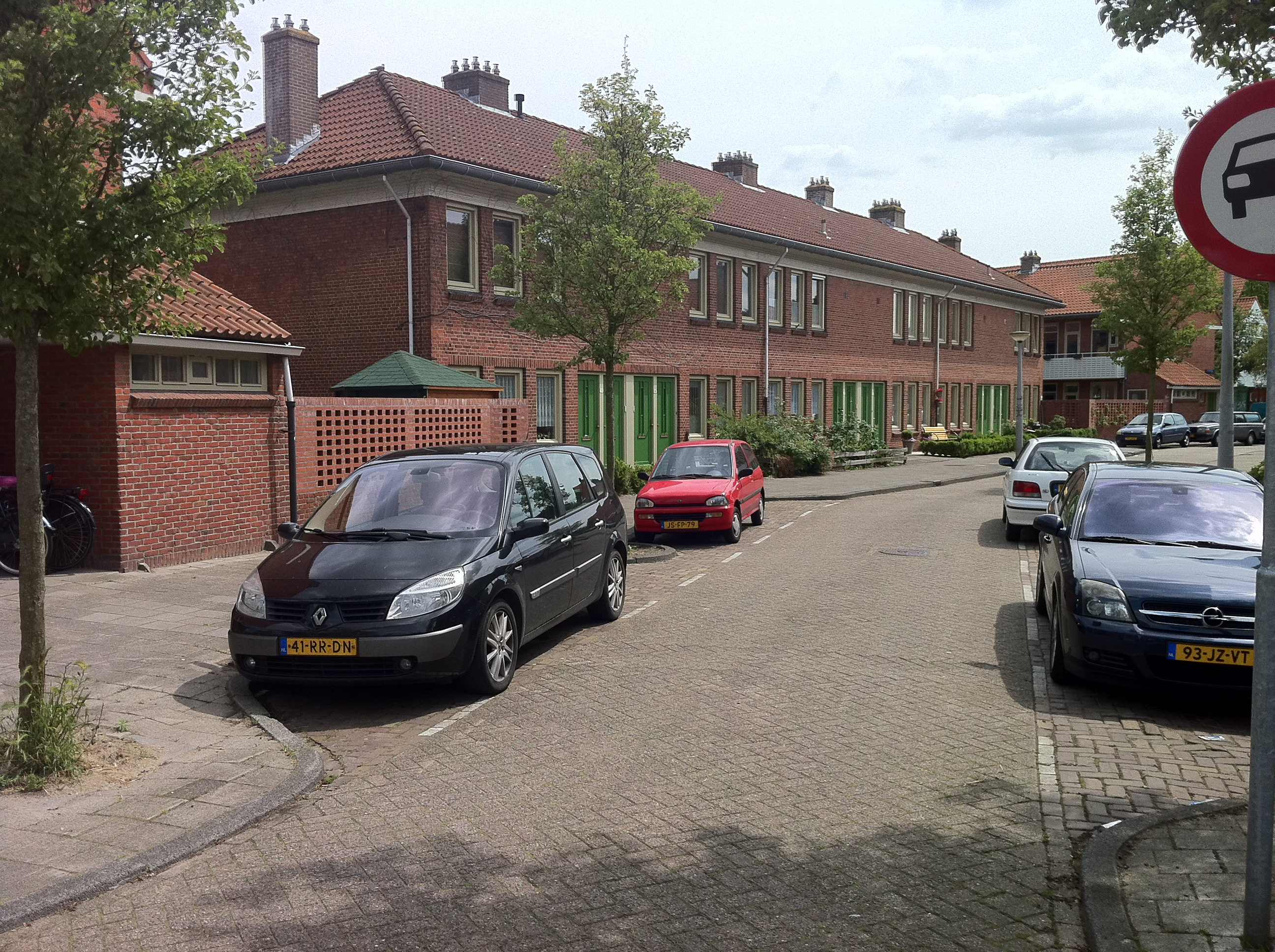 Latherusstraat as seen from Hortensiastraat looking south, North Amsterdam. Social housing project by the Municipality of Amsterdam, built in 1931.